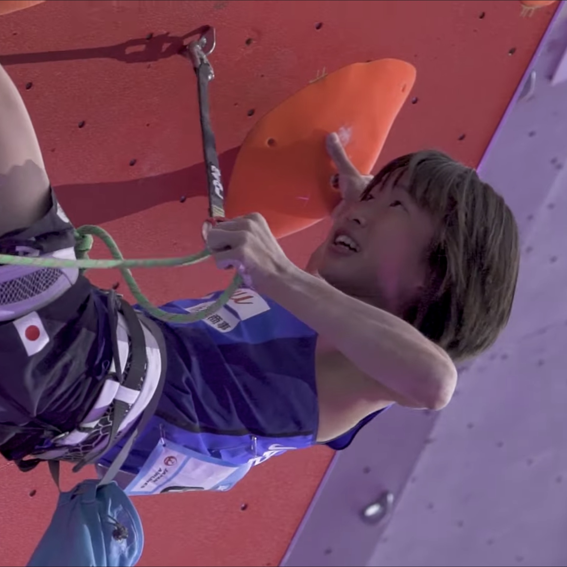 Ai Mori climbing lead at the 2019 Climbing World Cup Chamonix